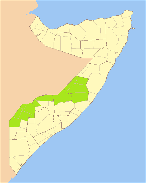 Area of Ethiopian Operations in Somalia (2009-2011)